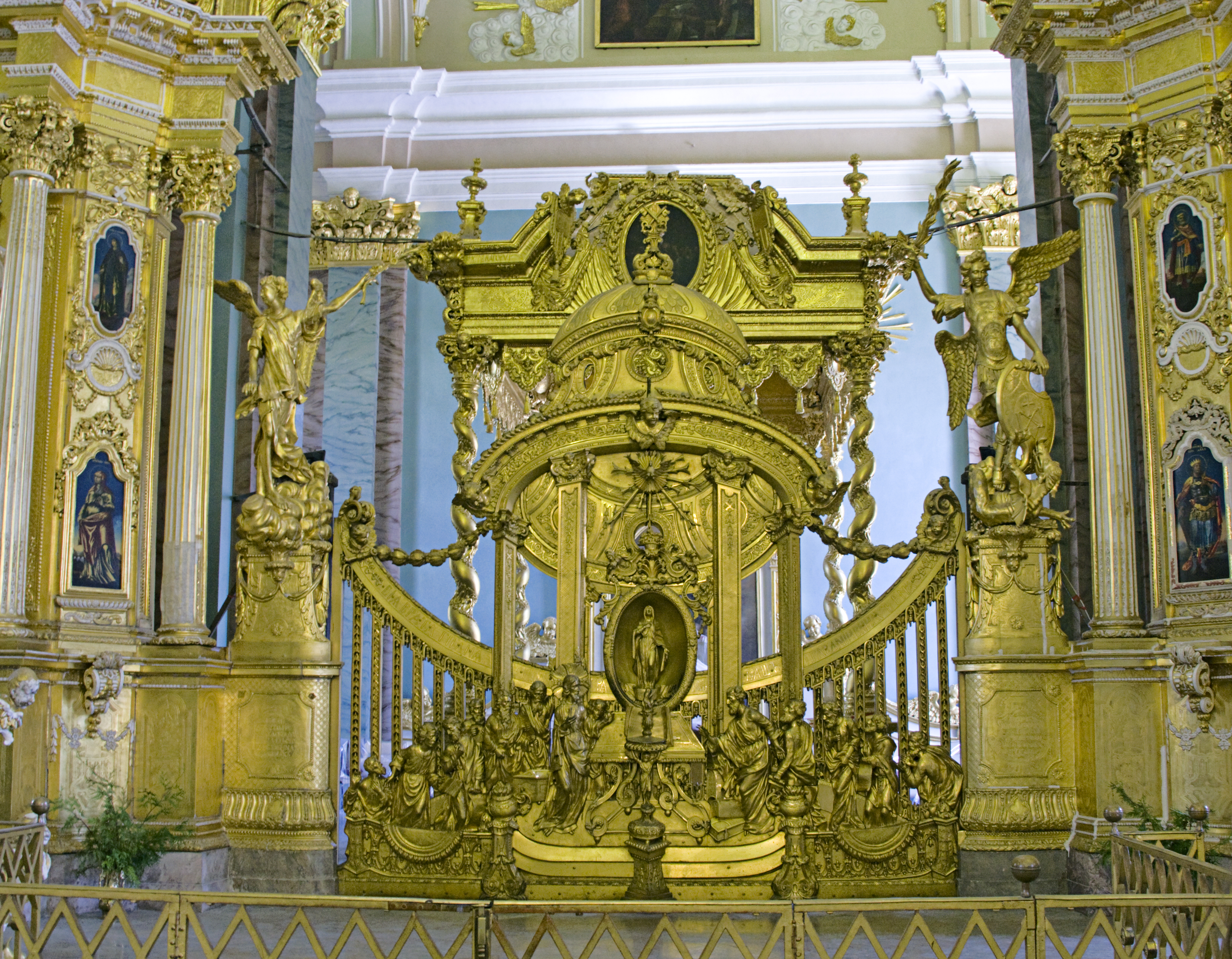 Interior view of the altar screen of St Peter and Paul Cathedral, St Petersburg, Russia